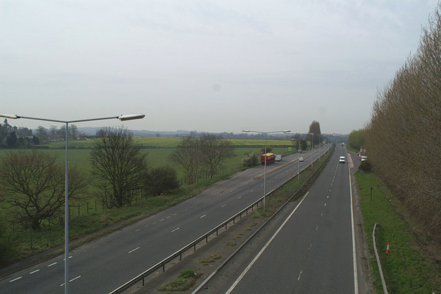 The A299, towards the junction with the A2/ M2 near to Staplestreet, Kent